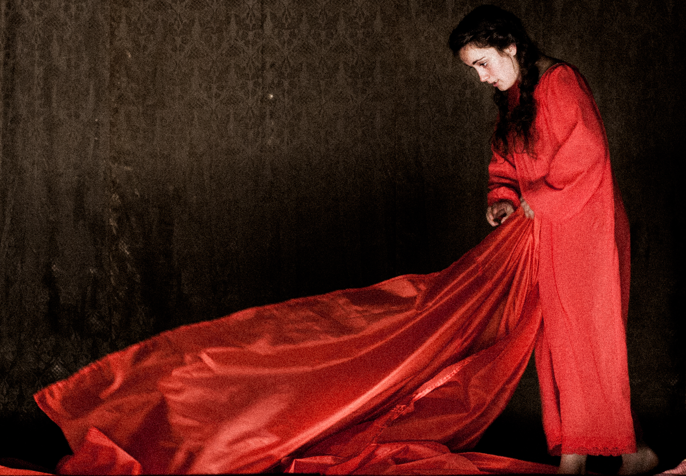 Photo from the premiere of the performance "Kateryna", based on poem of the same name by Taras Shevchenko. Photo - starring of Kateryna by actress Hanna Sukhomlyn. Troupe "Chesnyi theater", director - Kateryna Chepura, Kyiv. Premiere - on the 2nd festival "She.Fest", Moryntsi, Ukraine.